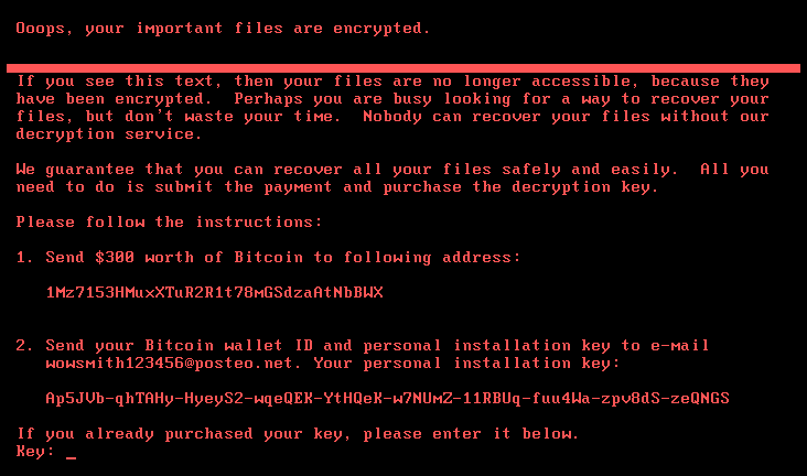 Petya (malware)